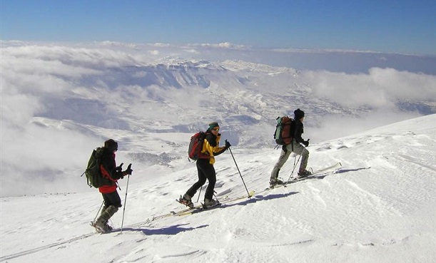 cedars ski resort